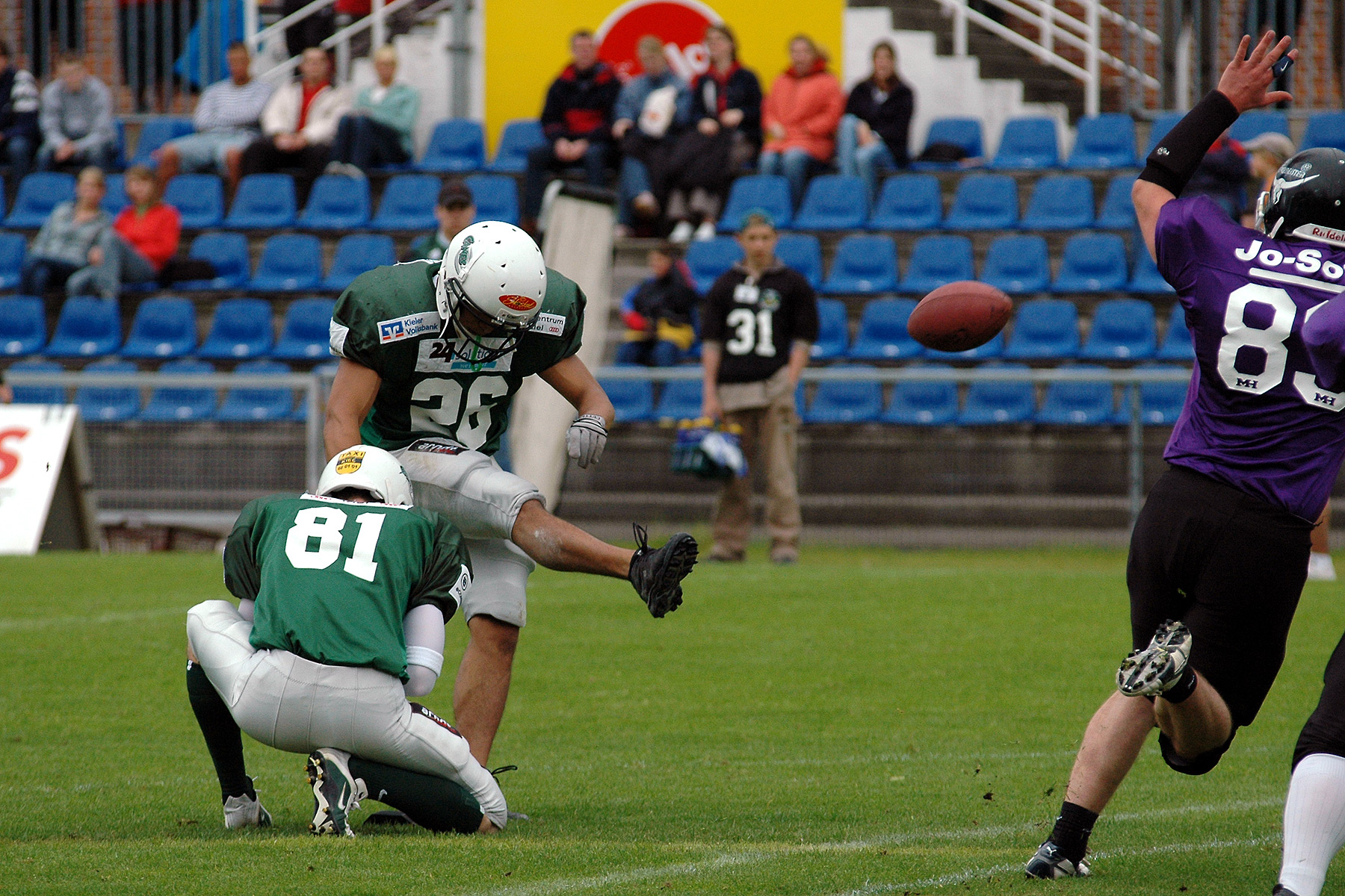 Field goal kick in american football. Playing teams: Kiel Baltic Hurricanes (home) vs Langenfeld Longhorns.